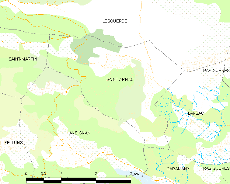 Map of French municipality